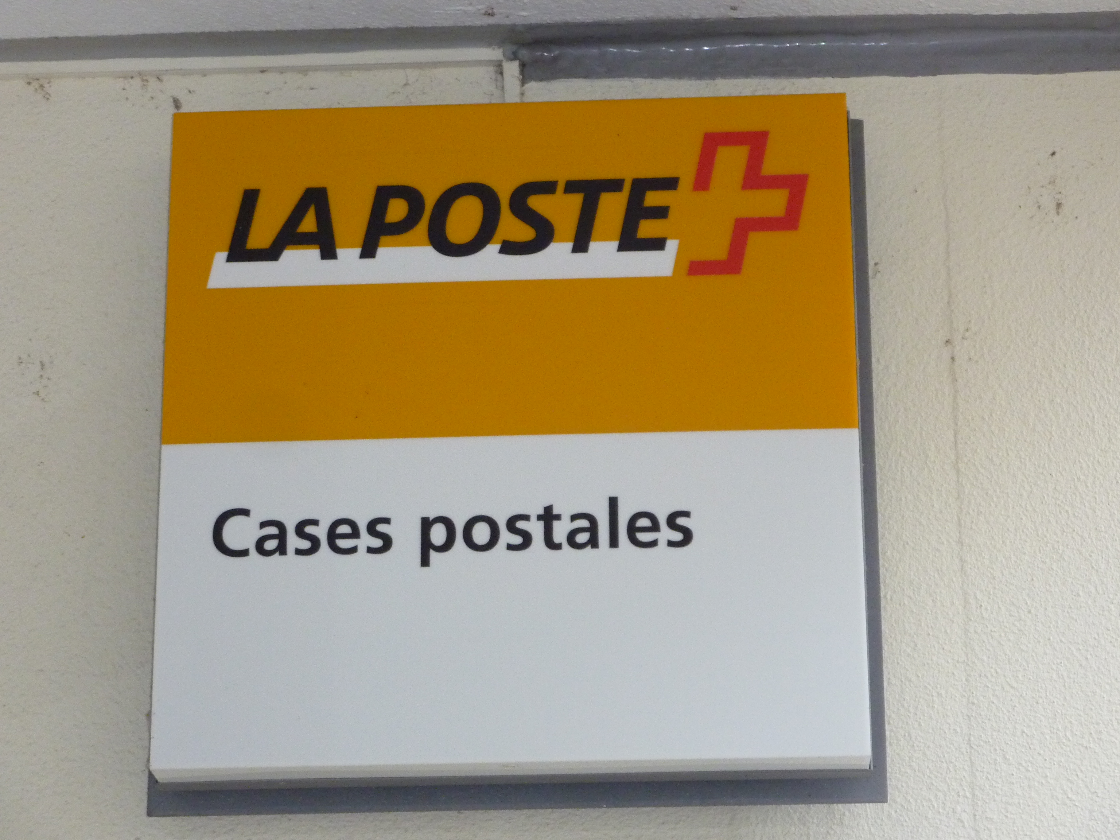 Post office boxes in Geneva Object location46° 11′ 41.64″ N, 6° 09′ 07.11″ E